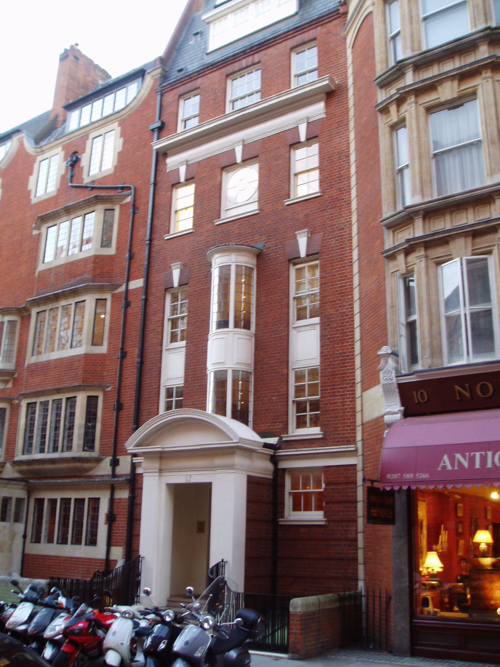 House on Hans Road, London.